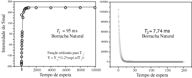 Tempo de relaxação longitudinal e tempo de relaxação transversal da Borracha natural.